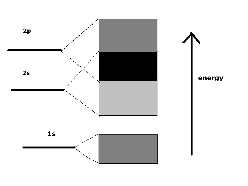 Metallic bold's "belts" with 1s, 2s and 2p-orbitals and growing energy-arrow.